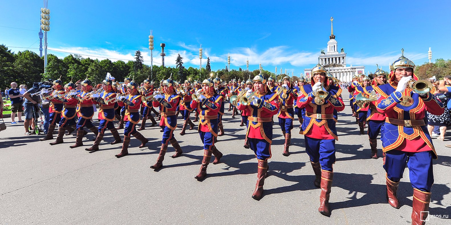 Military bands from various countries to perform in parks to mark the 870th anniversary of Moscow